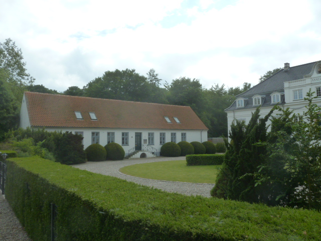 Arresødal in Frederiksværk, Denmark